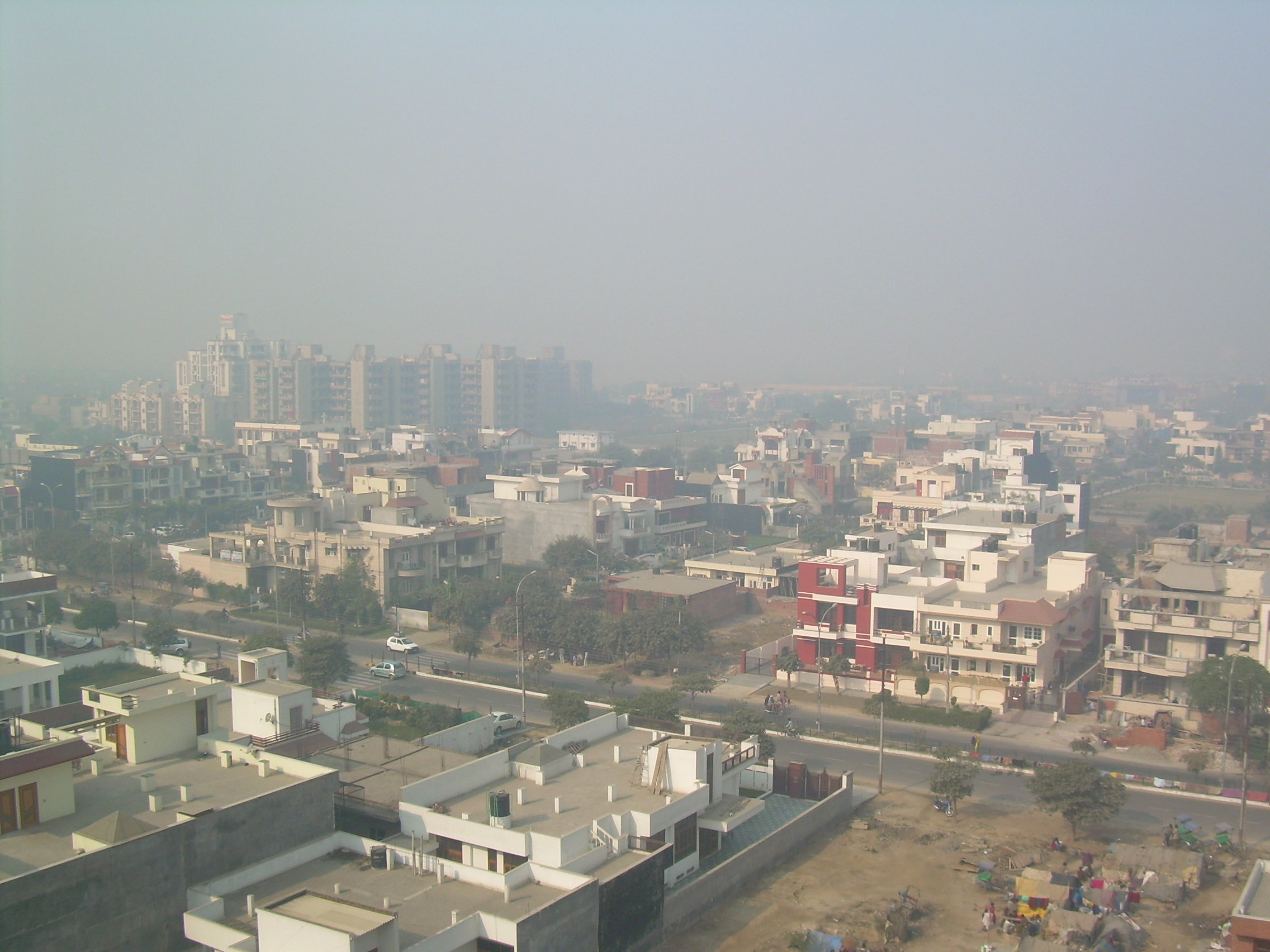 Photo obtained from . States that photo can be used under Creative Commons 2.0 license.